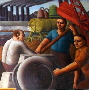 Meltser created this mural under the emplyment of the Department of the Treasury's Section of Painting and Sculpture. More information at The Living New Deal